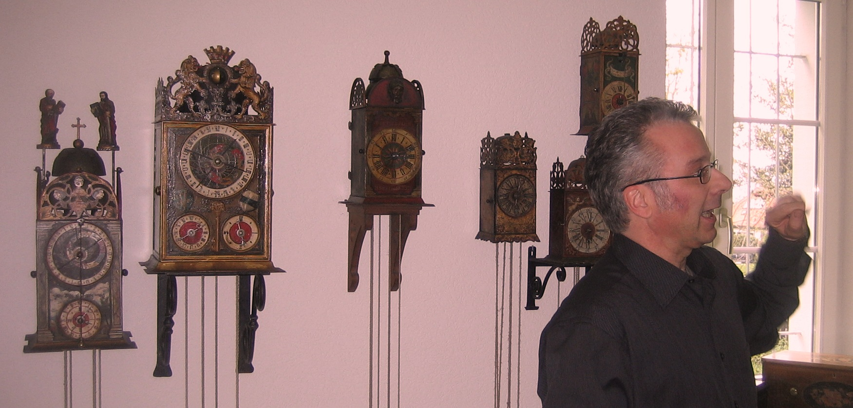 An image of several gothic period forged iron clocks at the Uhrenmuseum Roeslistrasse in Zuerich Switzerland